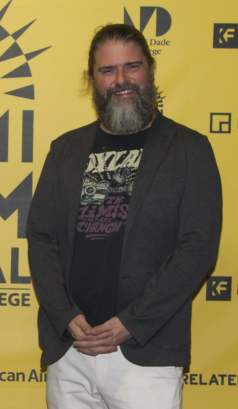 Actor Diego Adum Gilbert and Director Sebastian Cordero at the 2017 Miami International Film Festival showing of Such is Life in the Tropics